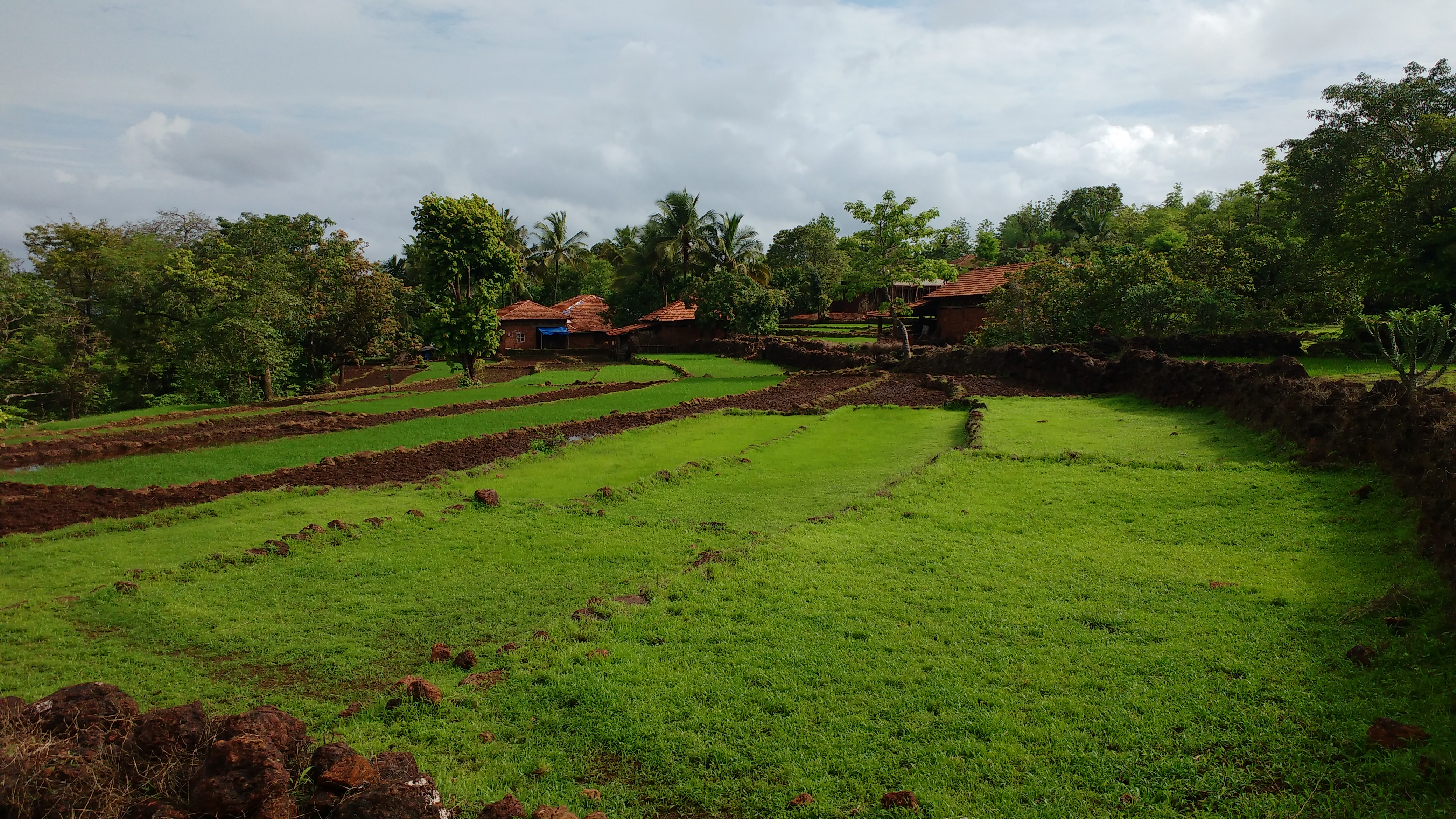 Rice is cultivated all overthe village.